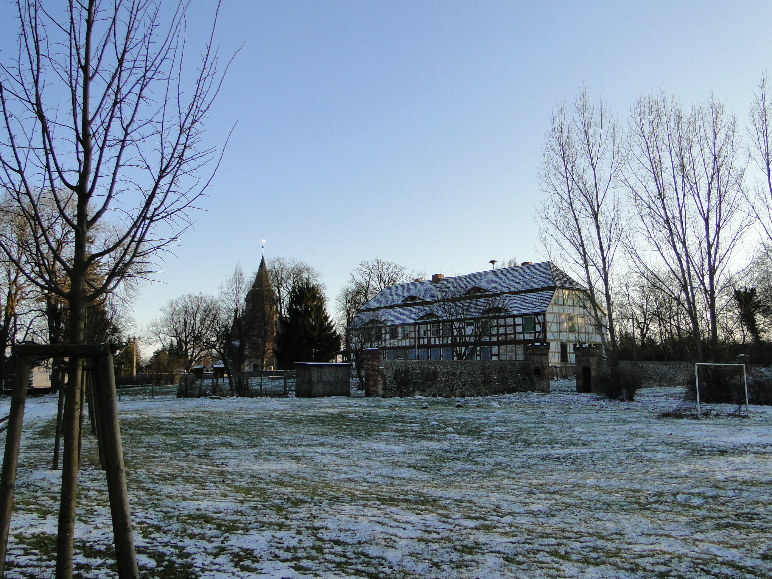 Manor house in Galenbeck, district Mecklenburgische Seenplatte, Mecklenburg-Vorpommern, Germany